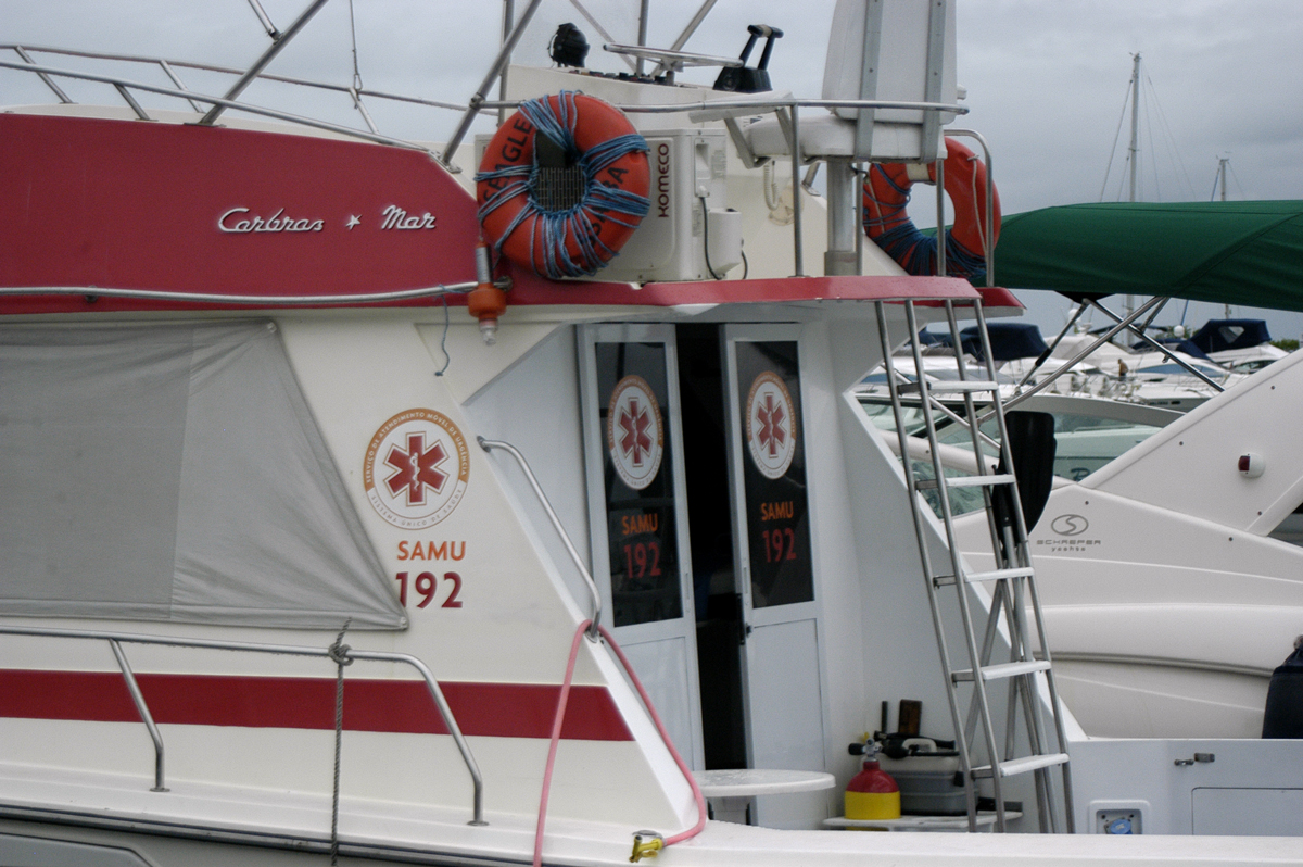 SAMU - Emergency medical services Brazil (Maritime)